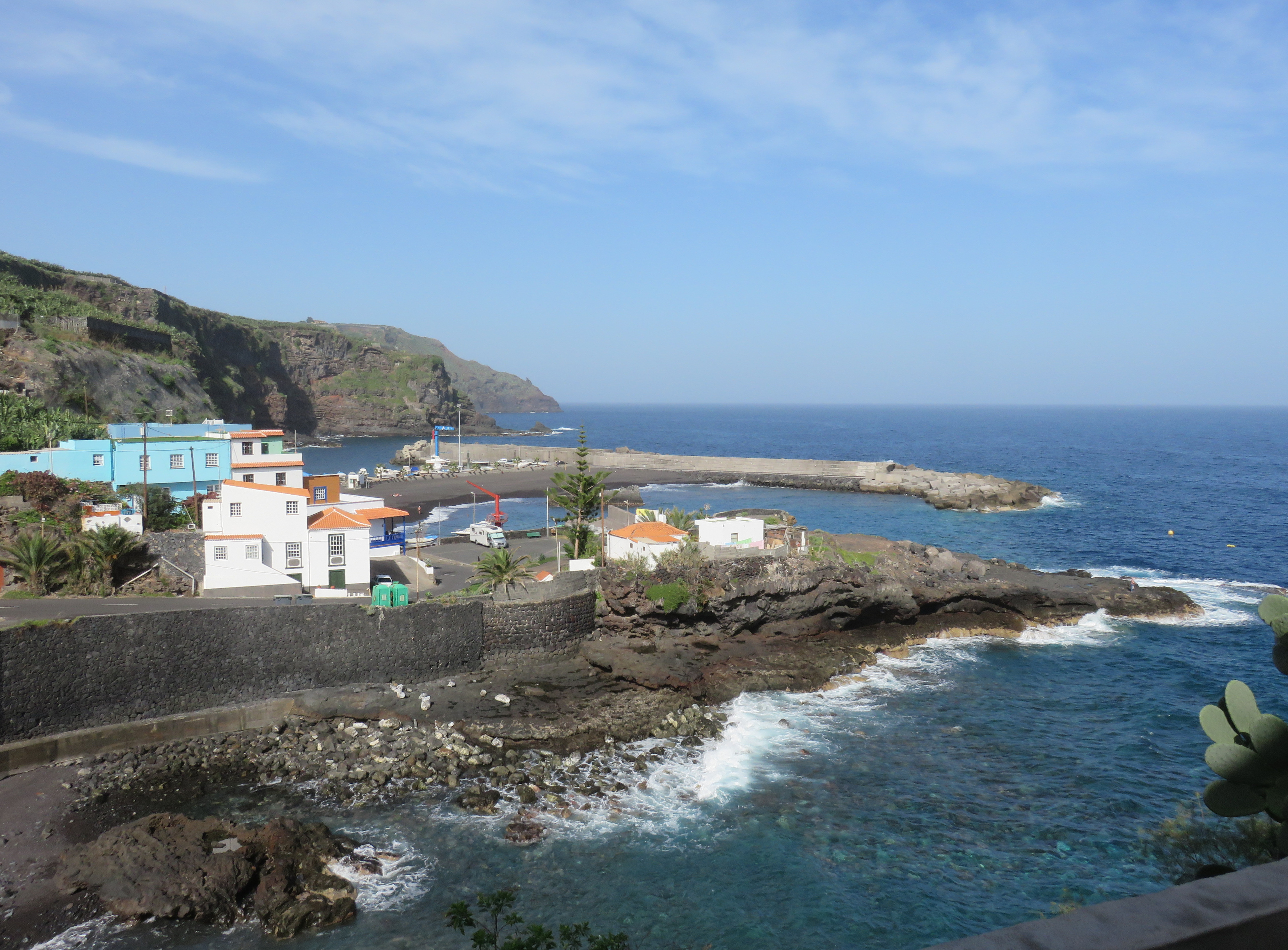 Puerto Espíndola, near San Andrés, La Palma